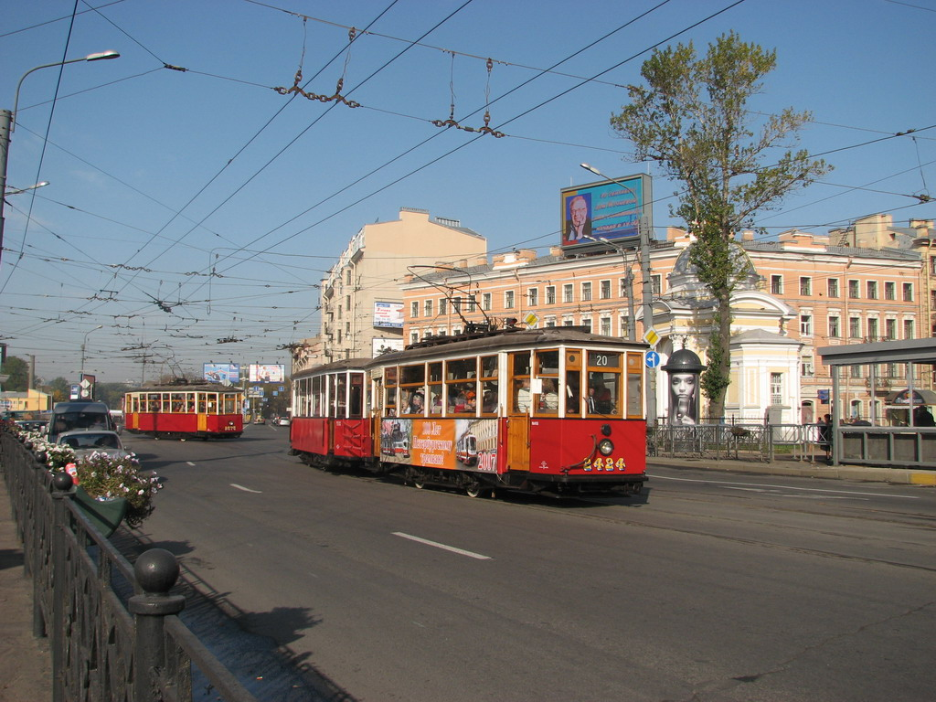 MS-III and MSP-III tram at Dobrolyubova prospect in Saint Petersburg